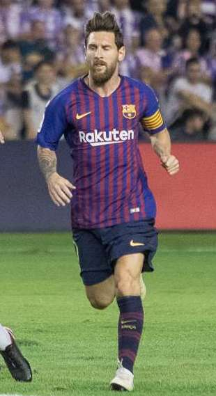 Real Valladolid - F. C. Barcelona, 2nd fixture of the 2018-19 La Liga, August 25, 2018.